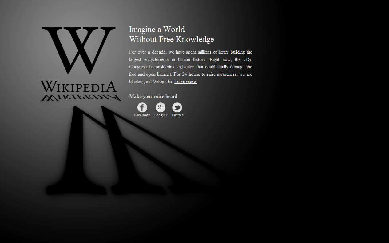 A print screen of the English-language Wikipedia page on 18 January 2012, illustrating its worldwide blackout in opposition to U.S. legislation such as SOPA and PIPA.